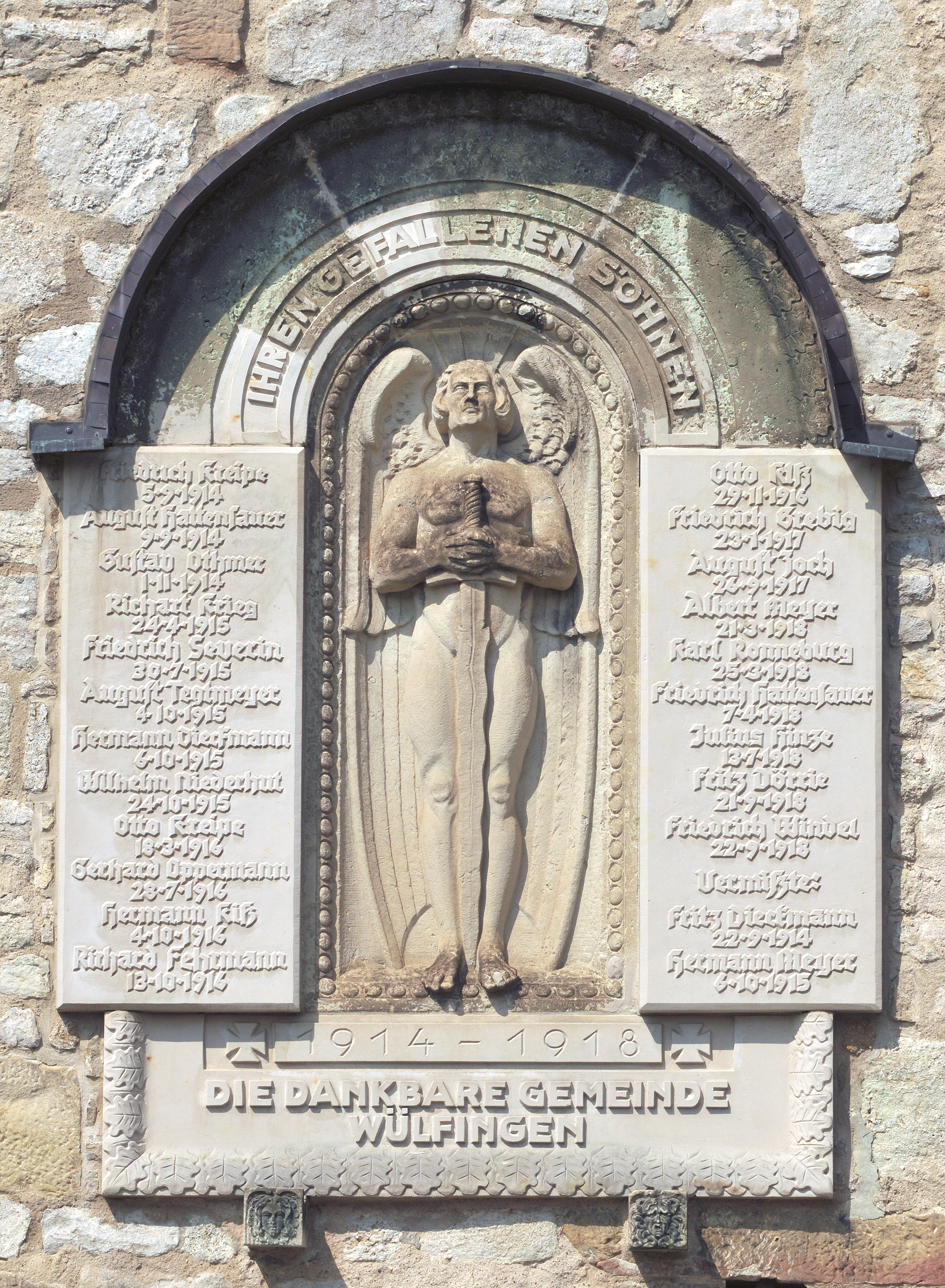 The Monument to the Fallen 1914 - 1918 in Wülfingen in Lower Saxony, Germany.